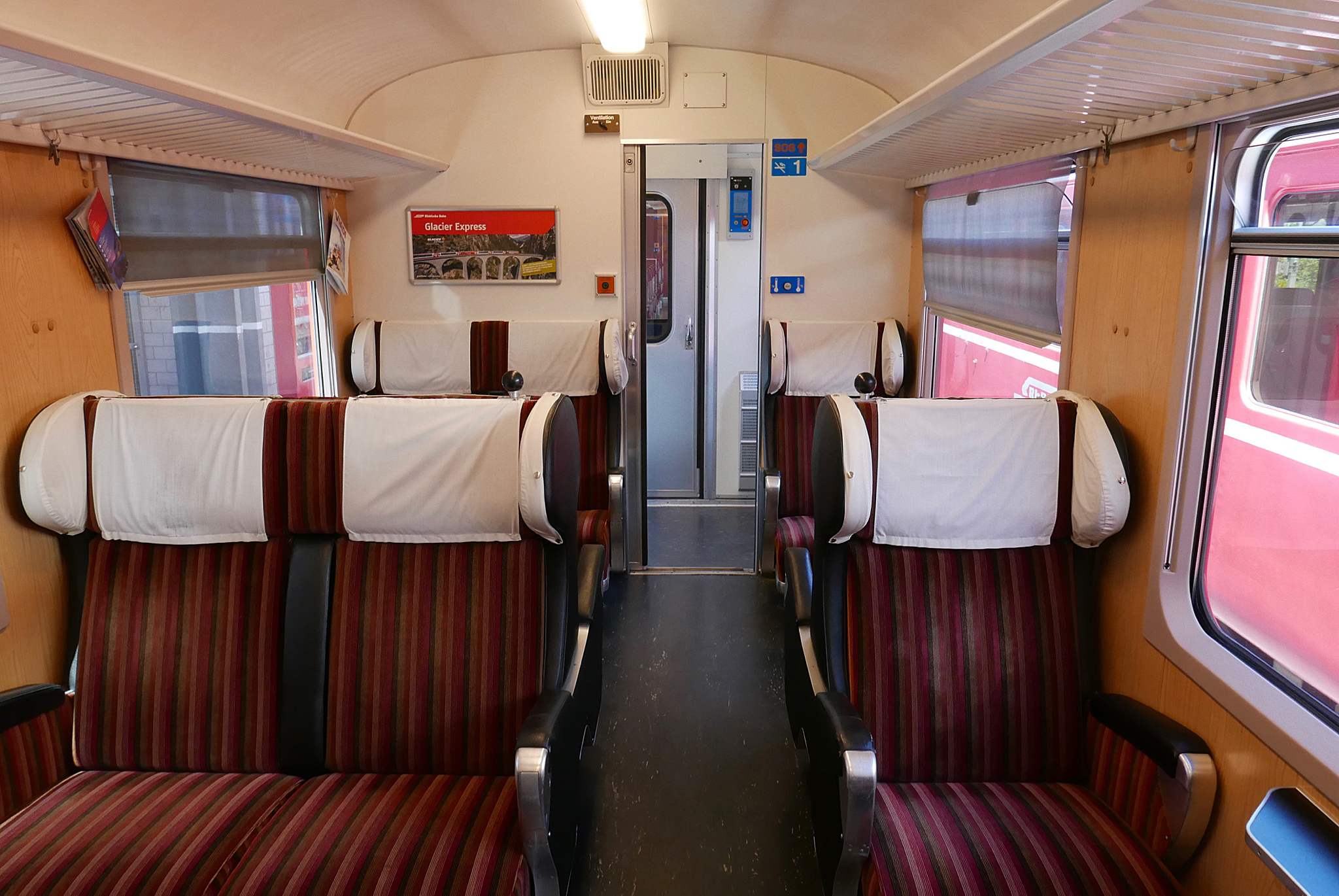 First class compartment of RhB ABDt 1713.